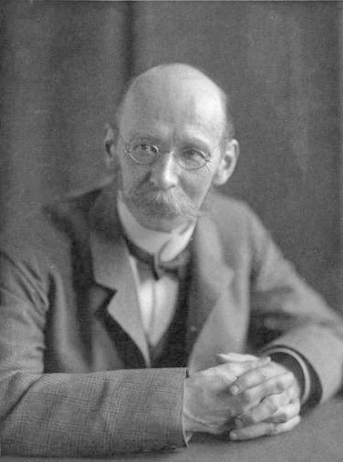 Karl Hermann Struve (October 3, 1854 – August 12, 1920)